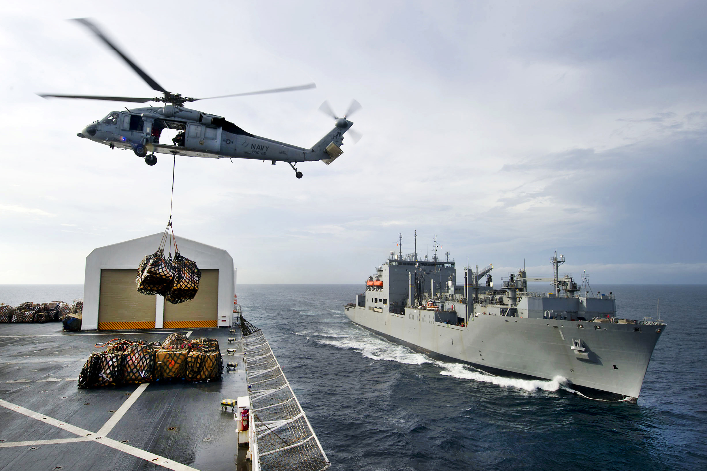 An MH-60S Knight Hawk helicopter transports cargo from the USNS Comfort to the USNS Lewis and Clark during a replenishment mission underway in the Pacific Ocean on July 26, 2011.